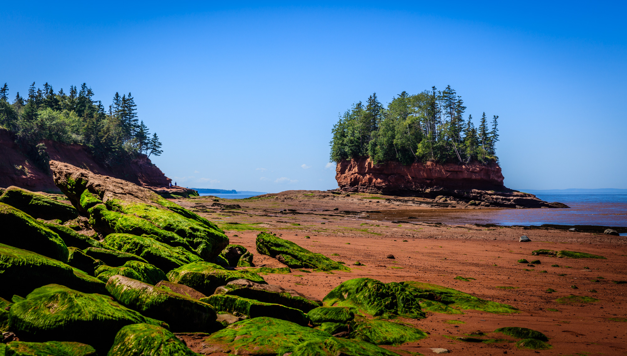 Home to the fastest tides in the world. At this park you can walk the shoreline at low tide and watch the island become a peninsula and then an island again. Pay attention to the tides, although the guides will warn you, they are fast and it is dangerous.